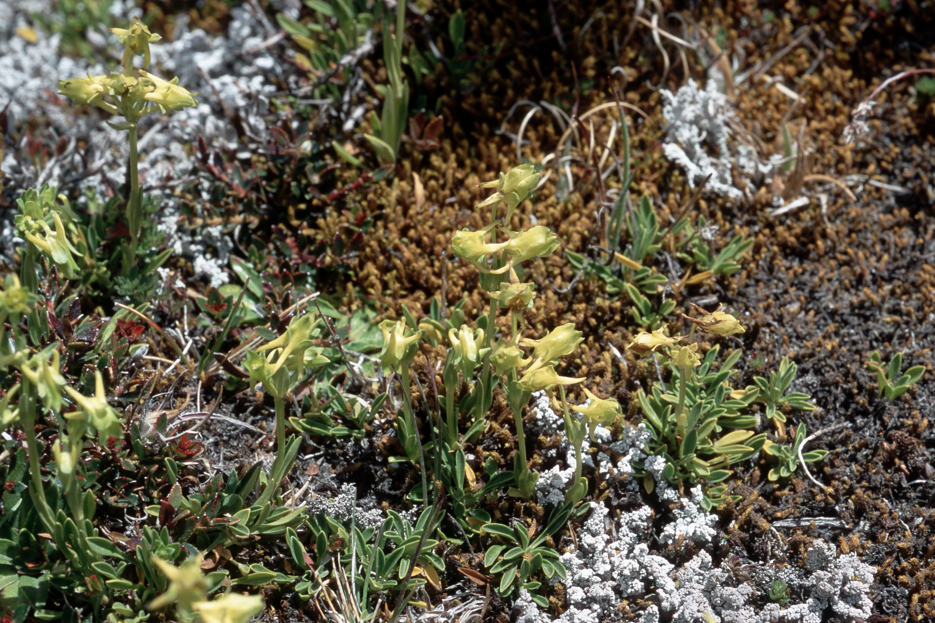 Halenia weddeliana, Cotopaxi, Ecuador